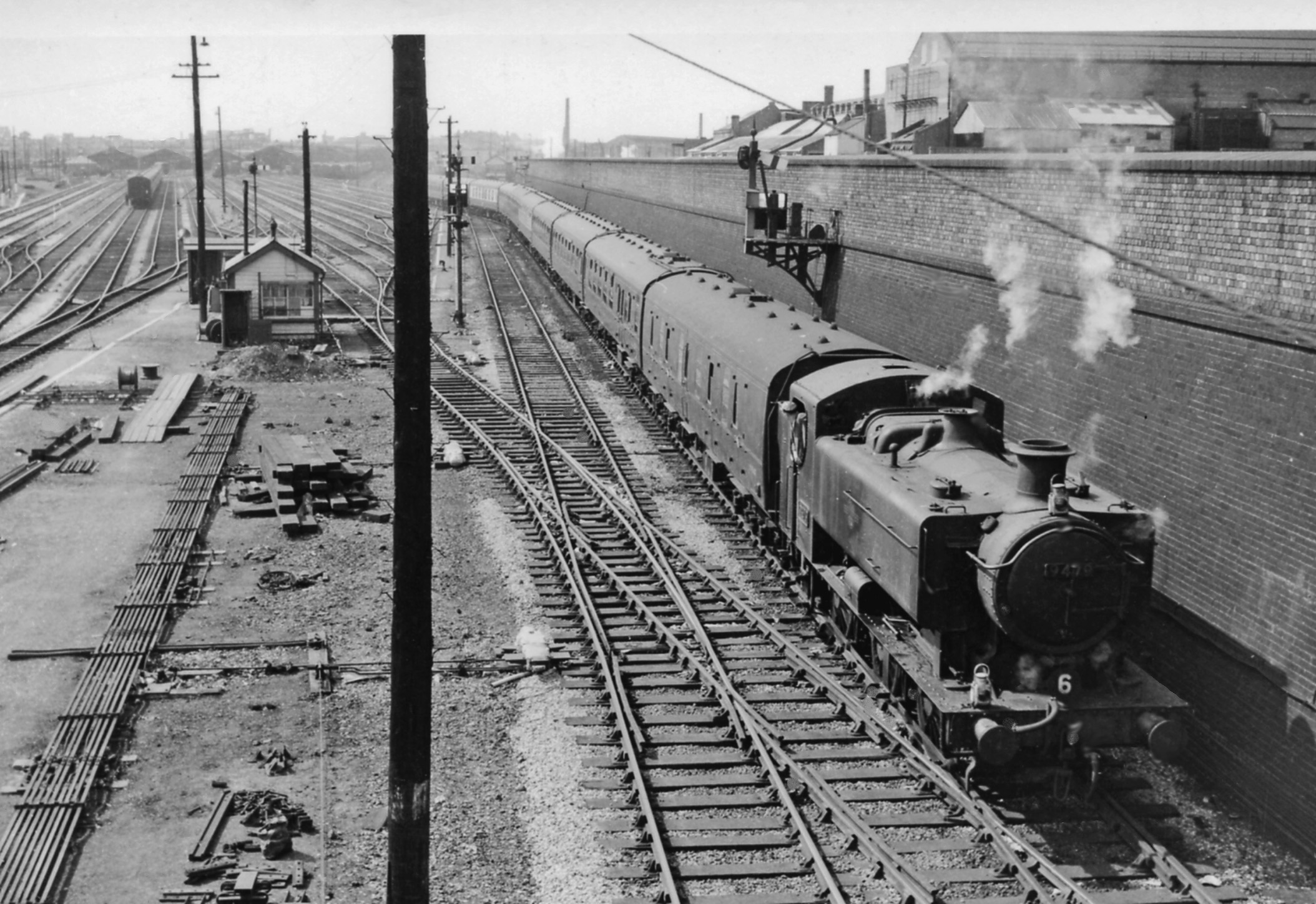 Empty stock for Paddington leaving Old Oak Common Yard. View westward, to the Locomotive and Carriage Yards from the convenient footbridge near Old Oak Common East Junction - see TQ2282 : Class 47 Diesel locomotive coming off Old Oak Common Depot, TQ2282 : A GW 'Hall' leaving Old Oak Common Depot for Paddington and TQ2282 : A '6100' 2-6-2T coming off Old Oak Common Depot. The locomotive is '9400' class 0-6-0T No. 9479, which spent all its short life (7/52 - 7/63) here.